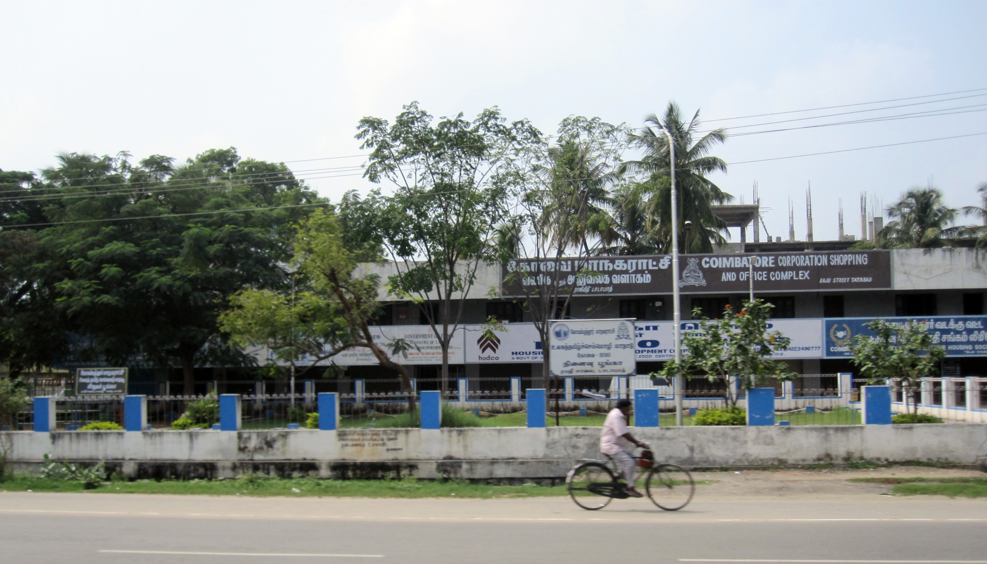 Corporatation Shopping Complex, Sivanandha Colony-Tatabad area, Coimbatore